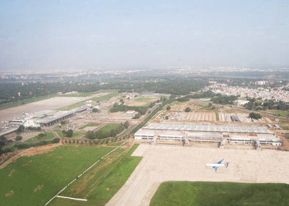 New Underconstruction Domestic Terminal at SVP International Airport, Ahmedabad